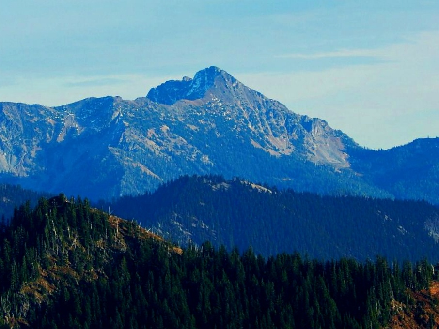 Bismarck Peak 7585' seen from near Naches Peak in Mount Rainier National Park.